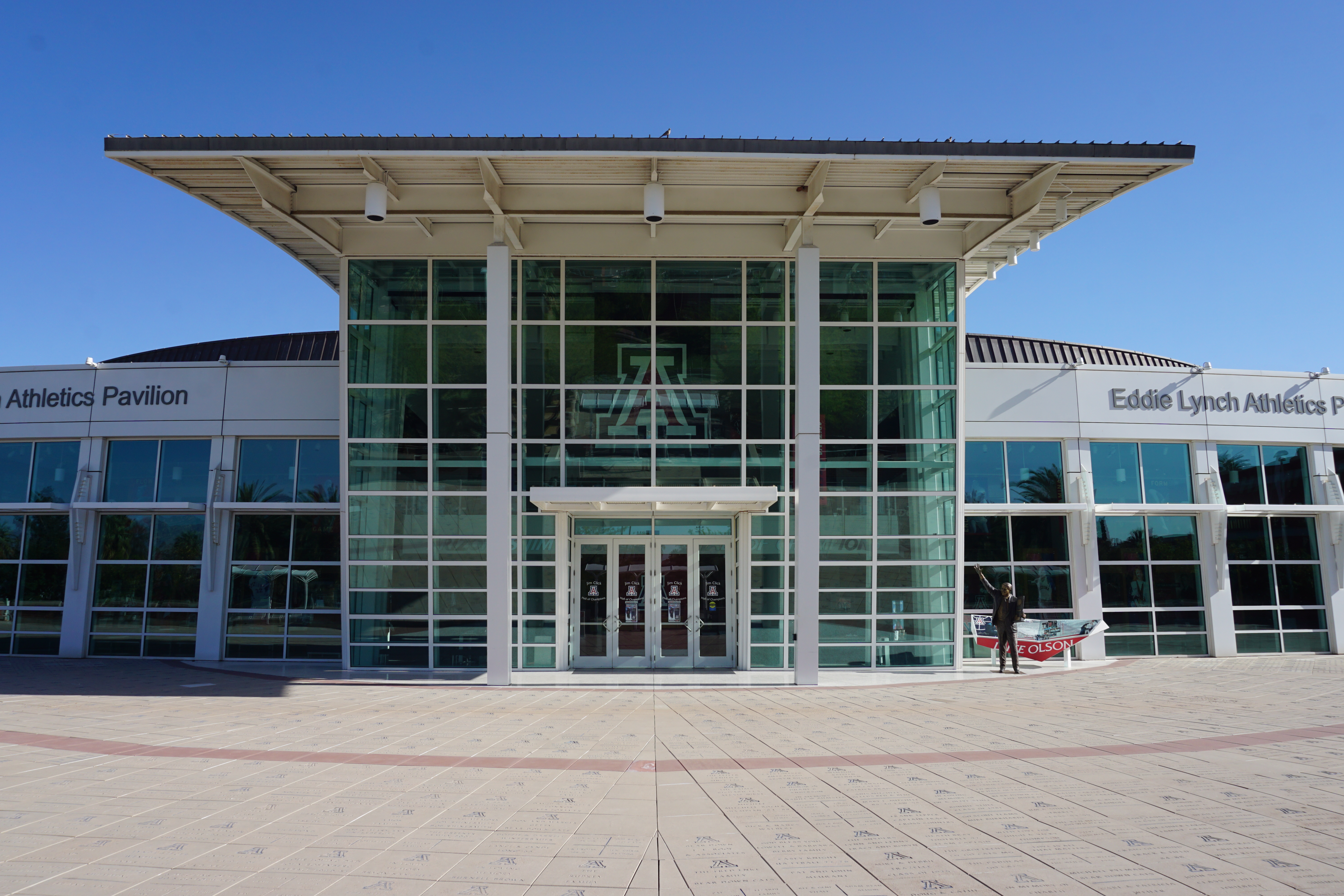 The McKale Memorial Center on the campus of the University of Arizona in Tucson, Arizona (United States).